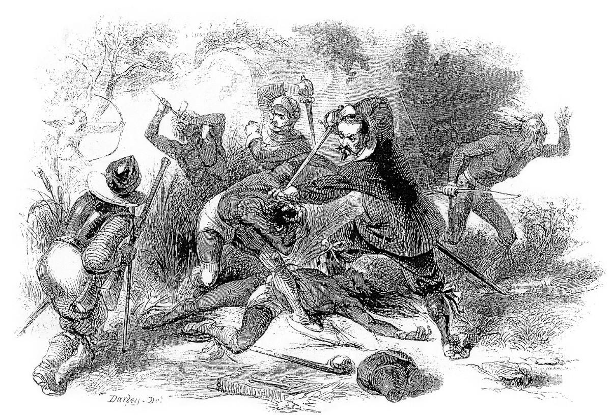 A 19th Century interpretation of the Fairfield Swamp Fight.